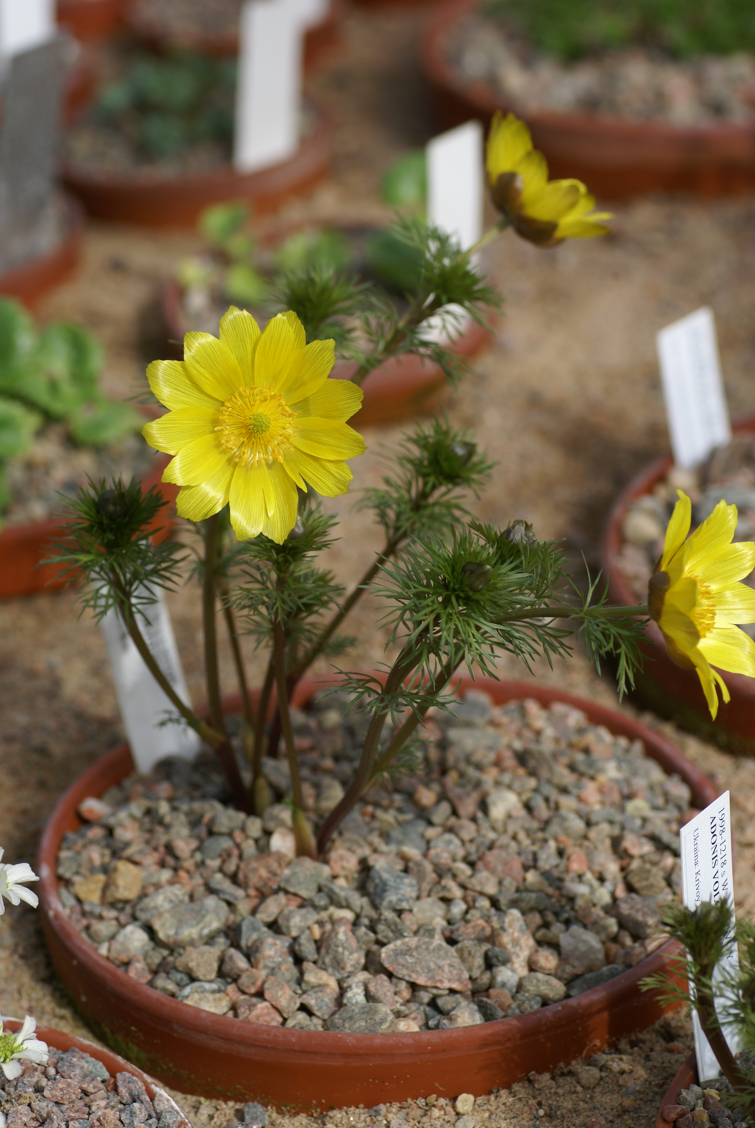 Plant species Adonis volgensis in Göteborgs botaniska trädgård in Gothenburg, Sweden